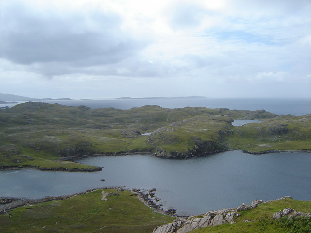 Northra Voe from Muckle Ward, Vementry Isle Across the Voe you can see the western section of the island of Vementry, and beyond it, on the horizon, the island of Papa Stour.